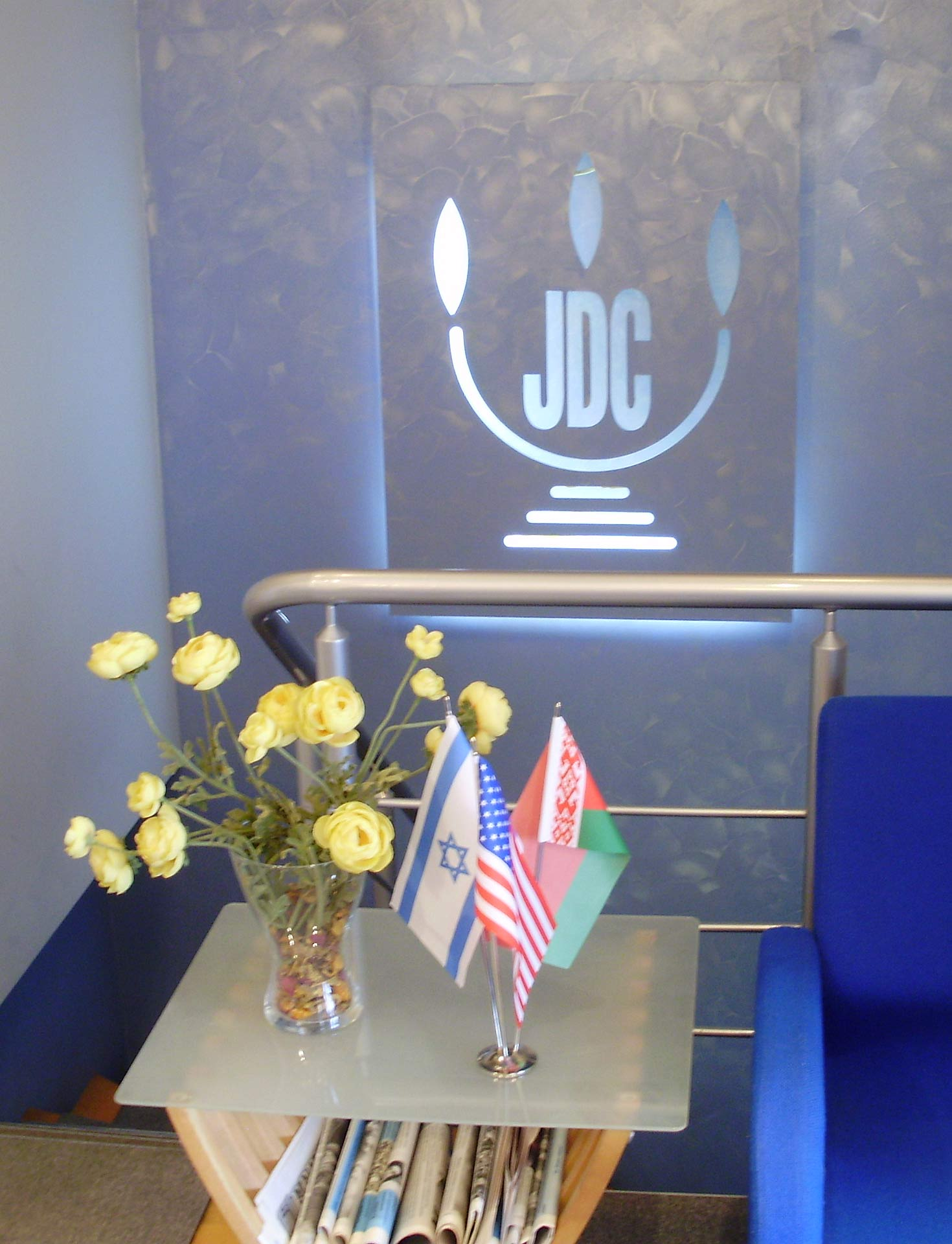 Joint Office in Minsk